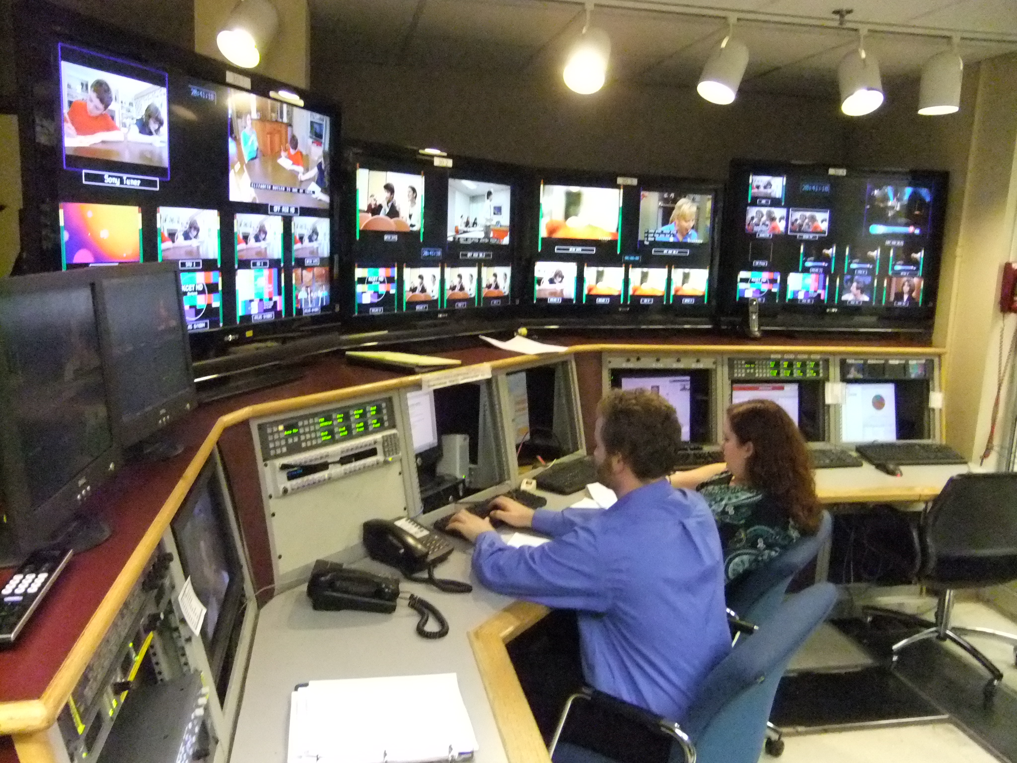 An open house at WFIU and WTIU, the public radio and telvision stations, in Indiana University Radio and Television Building.